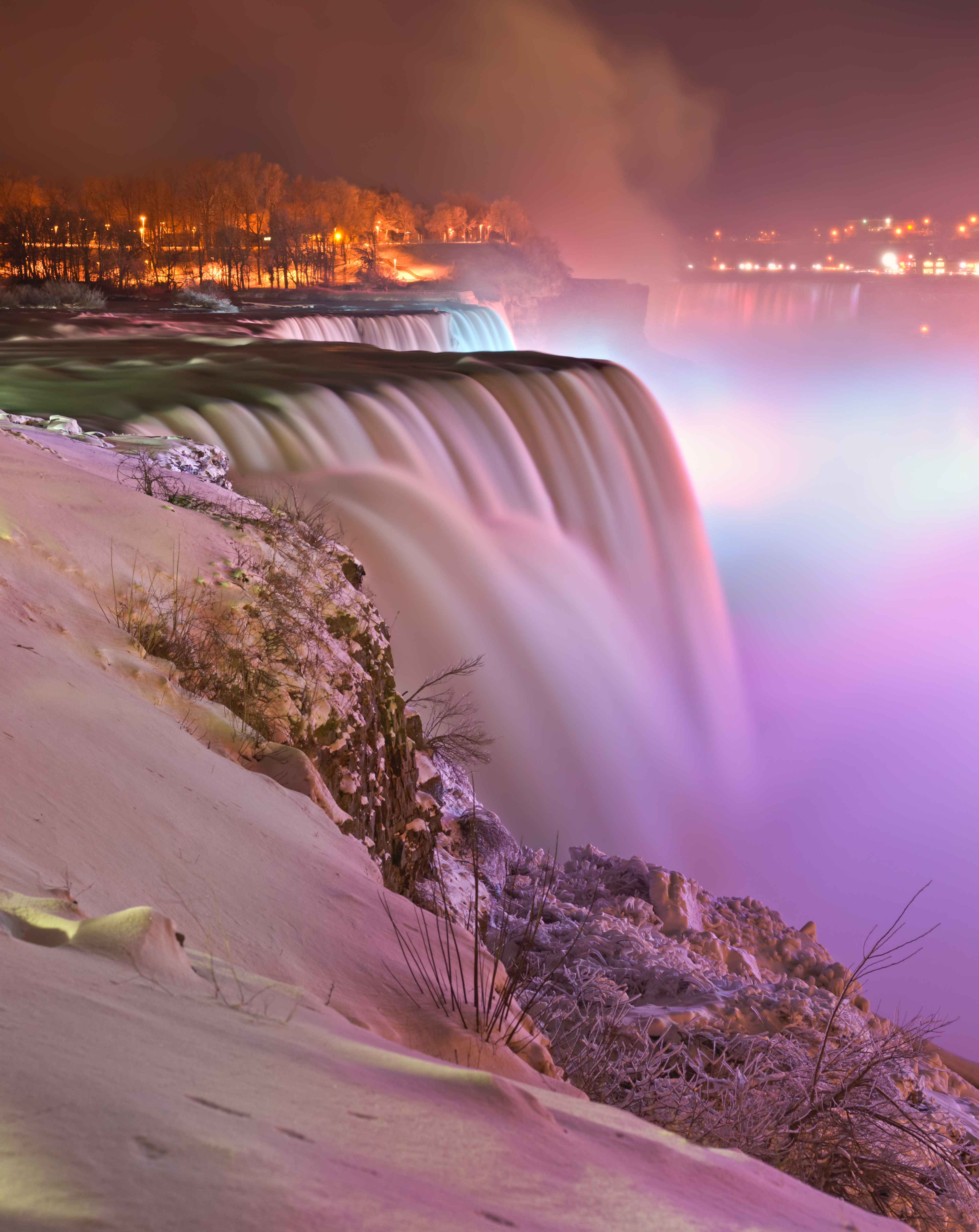 Prospect point night view of the Niagara Falls, in winter.